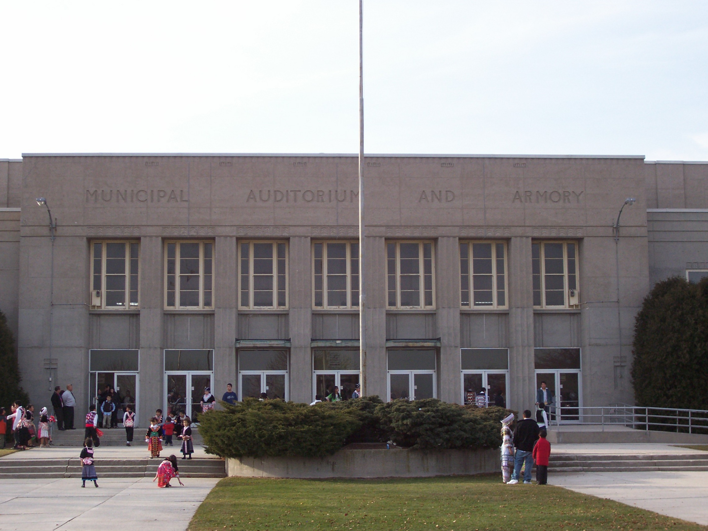 The entrance to the Sheboygan Municipal Auditorium and Armory in Sheboygan, Wisconsin, USA. The stadium used to be used for the Sheboygan Redskins, who was an National Basketball Association (NBA) team in the 1940s.